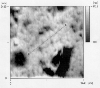 AFM visualization of silicone rubber (tapping mode). Picture taken in CBMiM PAN